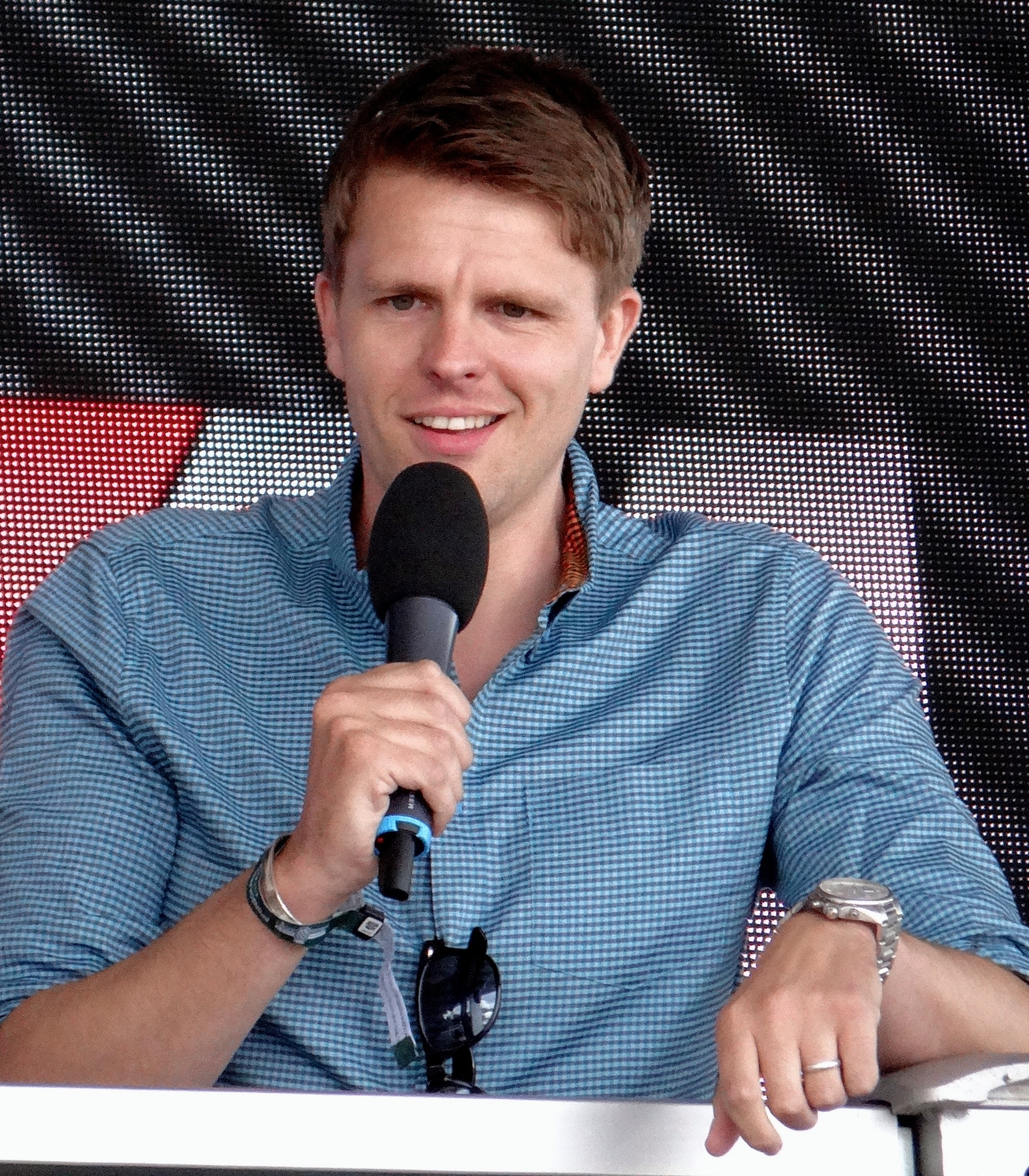 Broadcaster Jake Humphrey at the 2014 Goodwood Festival of Speed.